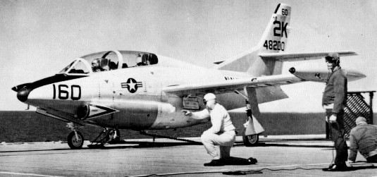 A U.S. Navy North American T2J-1 Buckeye trainer aircraft (BuNo 148200) of training squadron VT-7 on the catapult of the training aircraft carrier USS Antietam (CVS-36) in the early 1960s. The T2J-1 was redesignated T-2A in 1962.